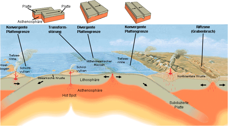 Types of tectonic plate boundaries with German labels